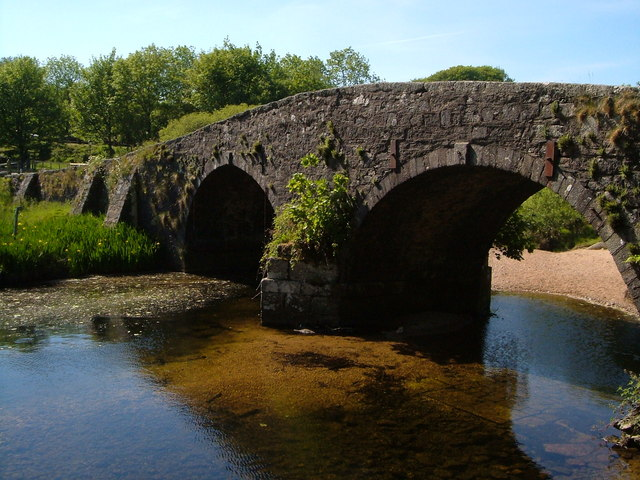 The old bridge, Two Bridges, Dartmoor, England. Just a few yards south of the new bridge over the West Dart on the B3357, but in a different square, the bridge leads on the right to the Two Bridges Hotel. Looking upstream.